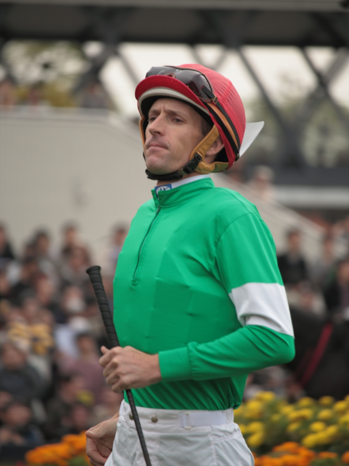 Hugh Bowman (Jockey from Australia).